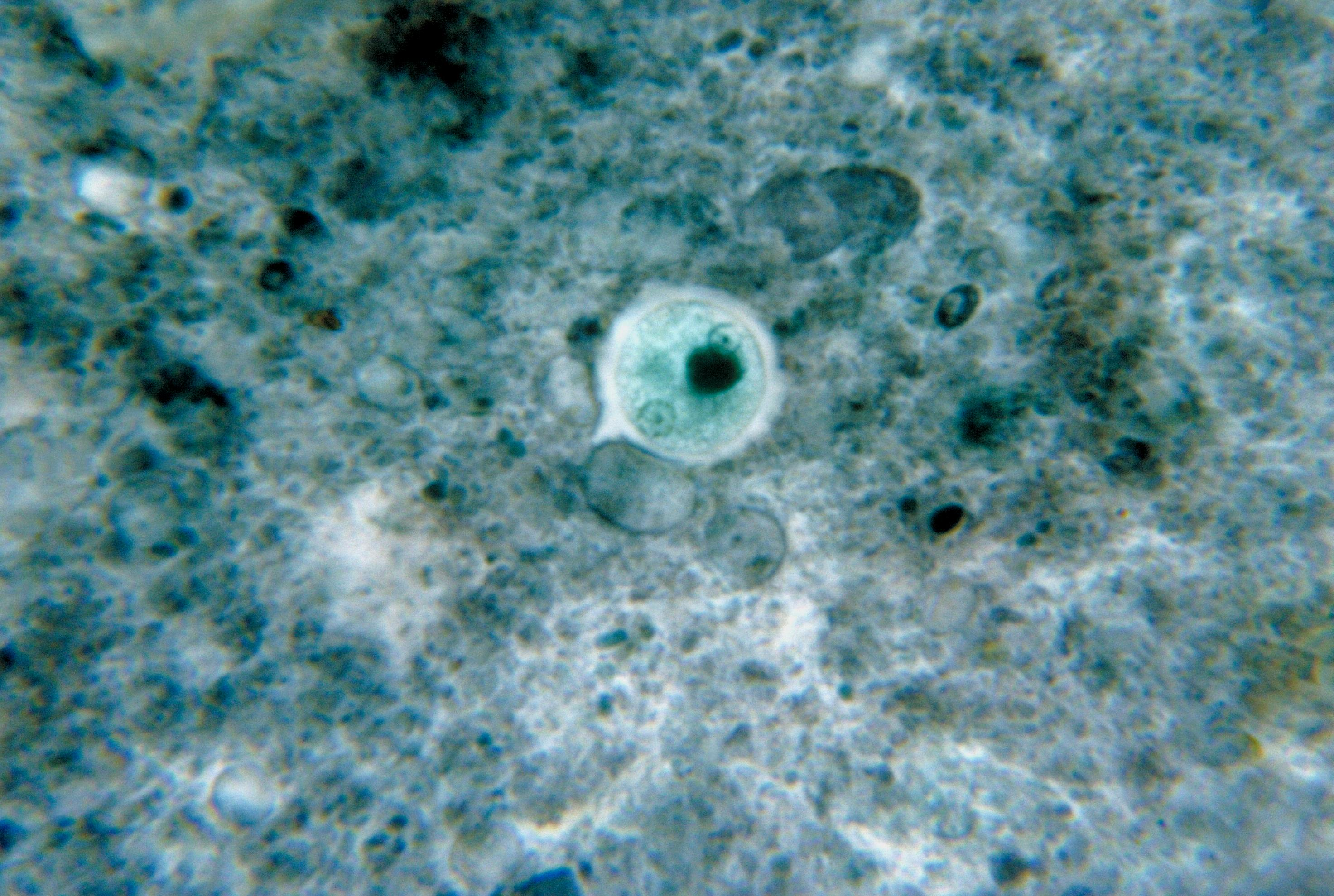 This micrograph stained with chlorazol black, revealed an Entamoeba histolytica cyst. Several protozoan species in the genus Entamoeba infect humans, but not all of them are associated with disease. Entamoeba histolytica is well recognized as a pathogenic ameba, associated with intestinal and extraintestinal infections.